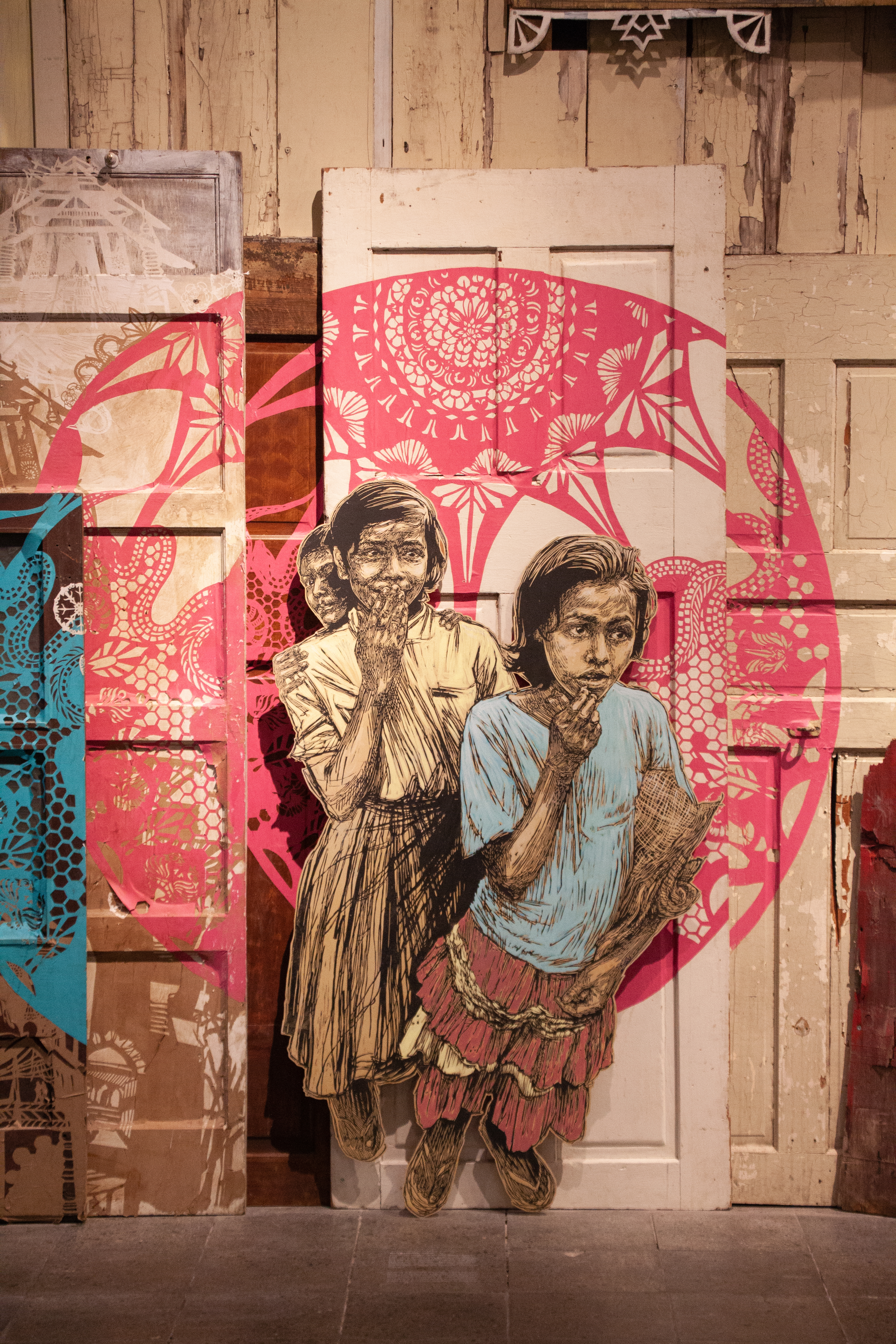 A detail of the Time Capsule at the Museum of Urban and Contemporary Art, Munich, Germany